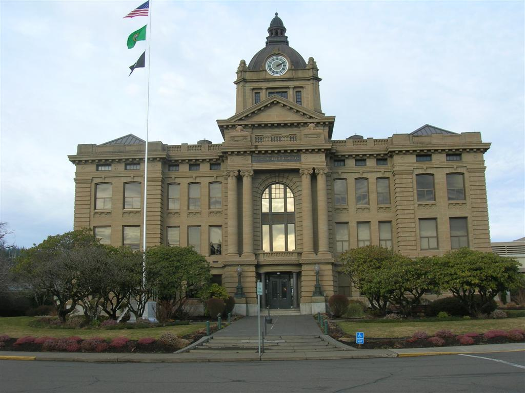 Grays Harbor County Courthouse, in Montesano, Washington. I took this picture on Feb 4, 2007.